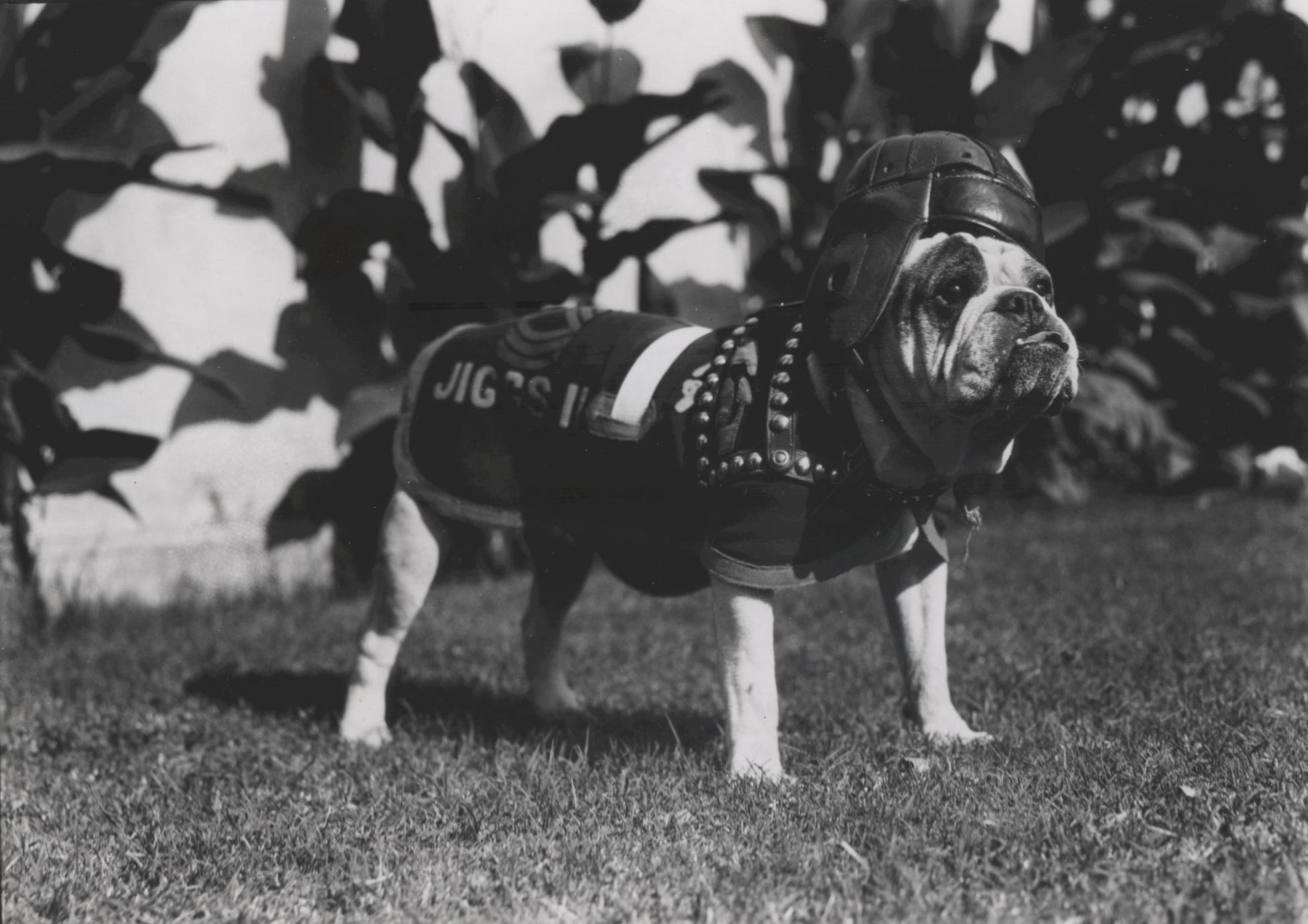 From the P.J. Woods Collection (COLL/1502), Marine Corps Archives & Special Collections OFFICIAL USMC PHOTOGRAPH